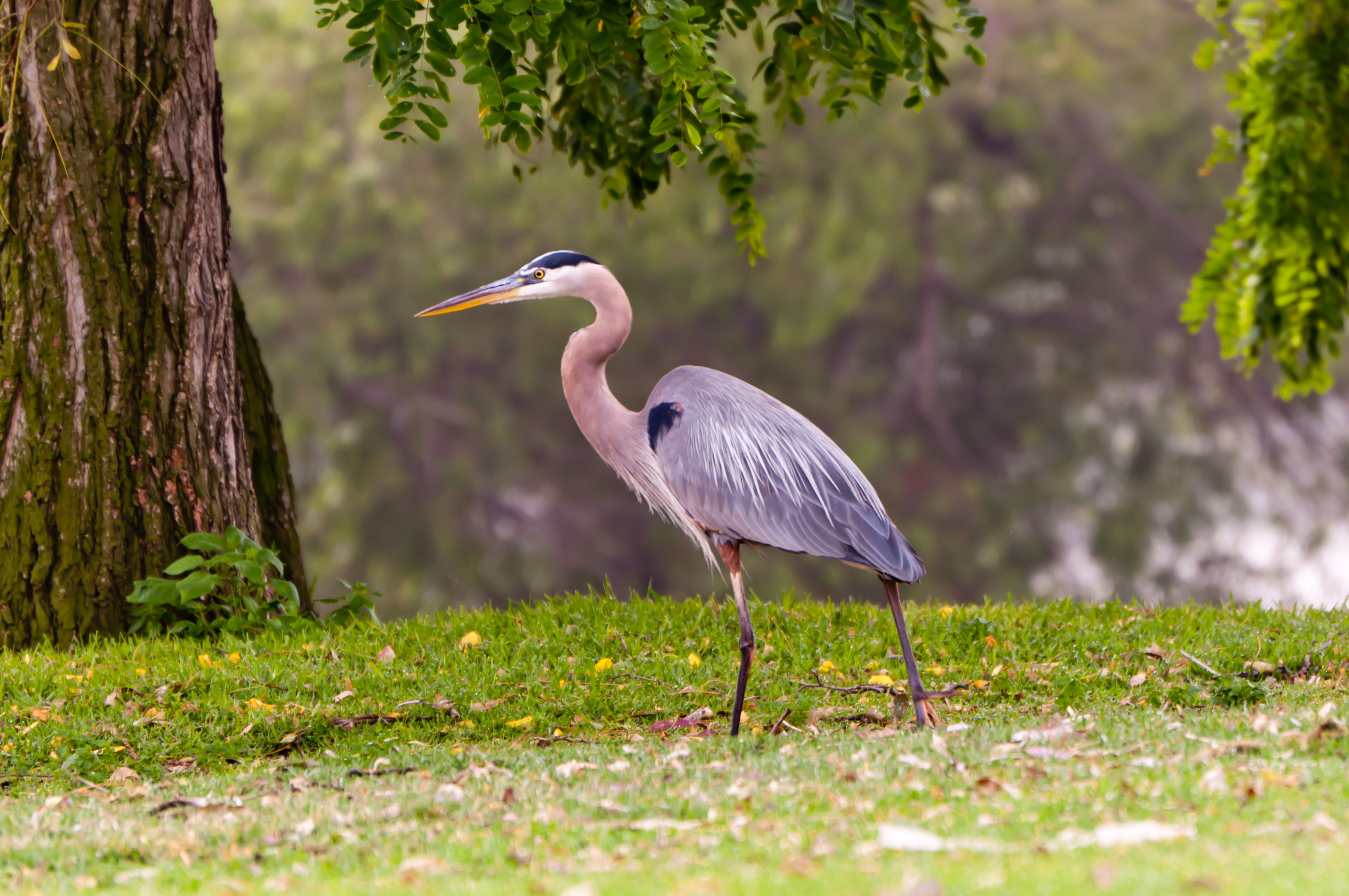 A Great Blue Heron in South El Monte, California, USA.